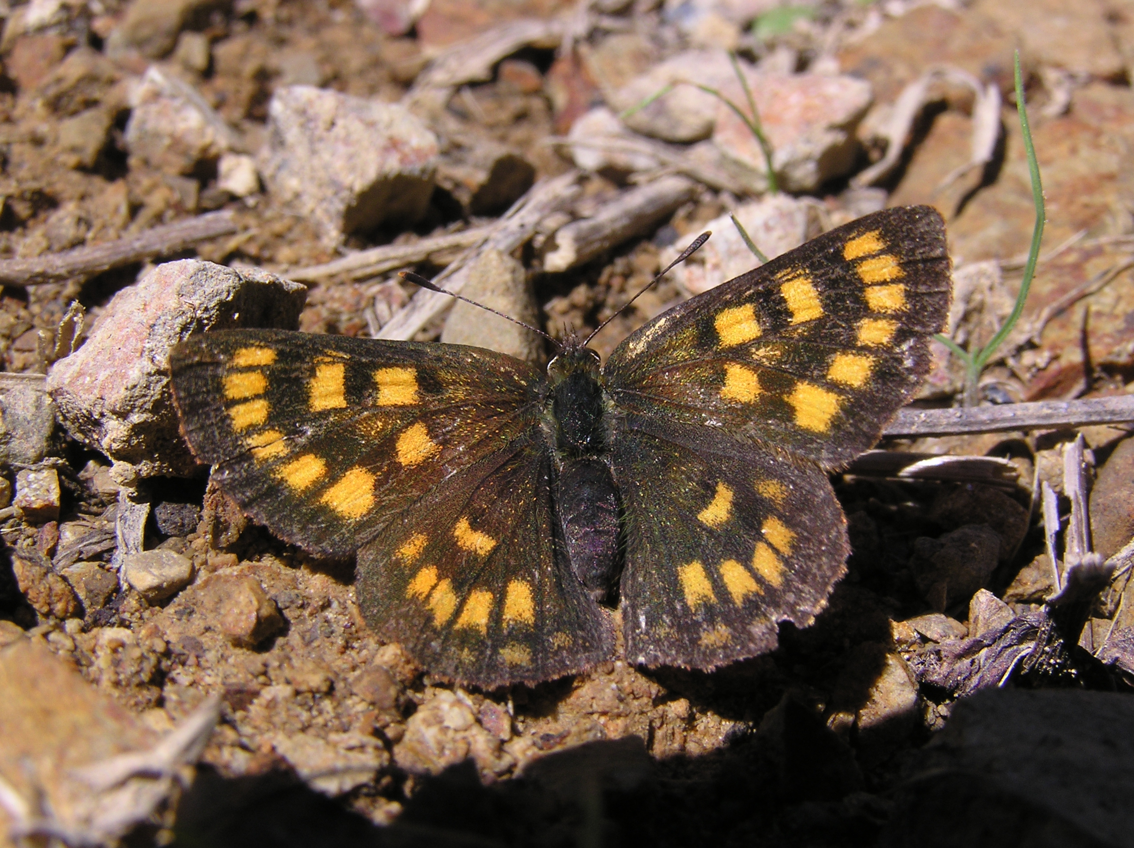 Glade Copper butterfly, female. Karori, Wellington, New Zealand. Māori: Pepe Para Riki